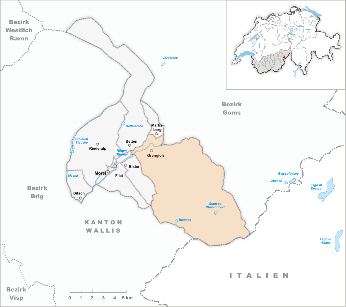 Municipality Grengiols